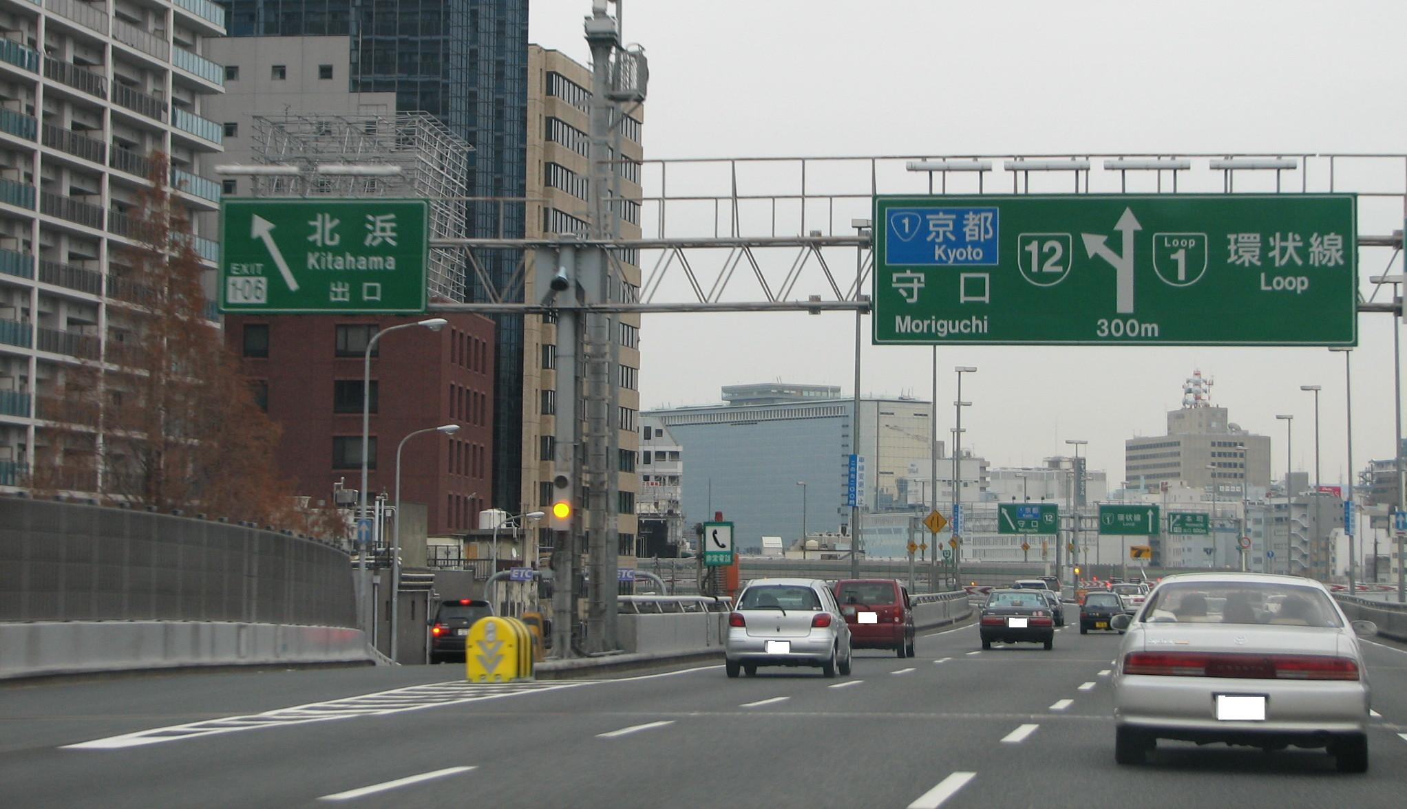 Hanshin Expressway Kitahama IC